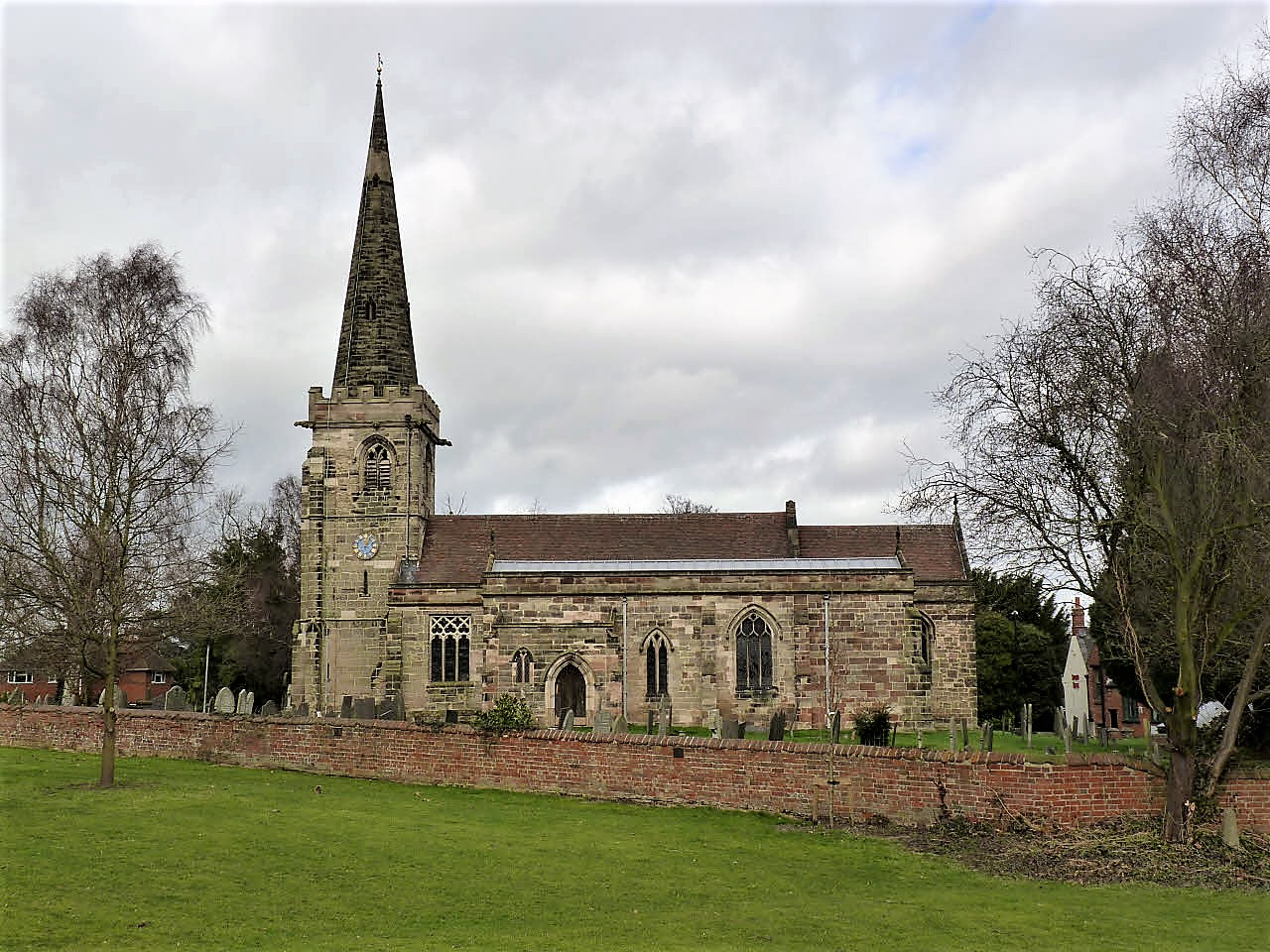 Photograph of St Mary's Church, Rolleston on Dove, Staffordshire, England